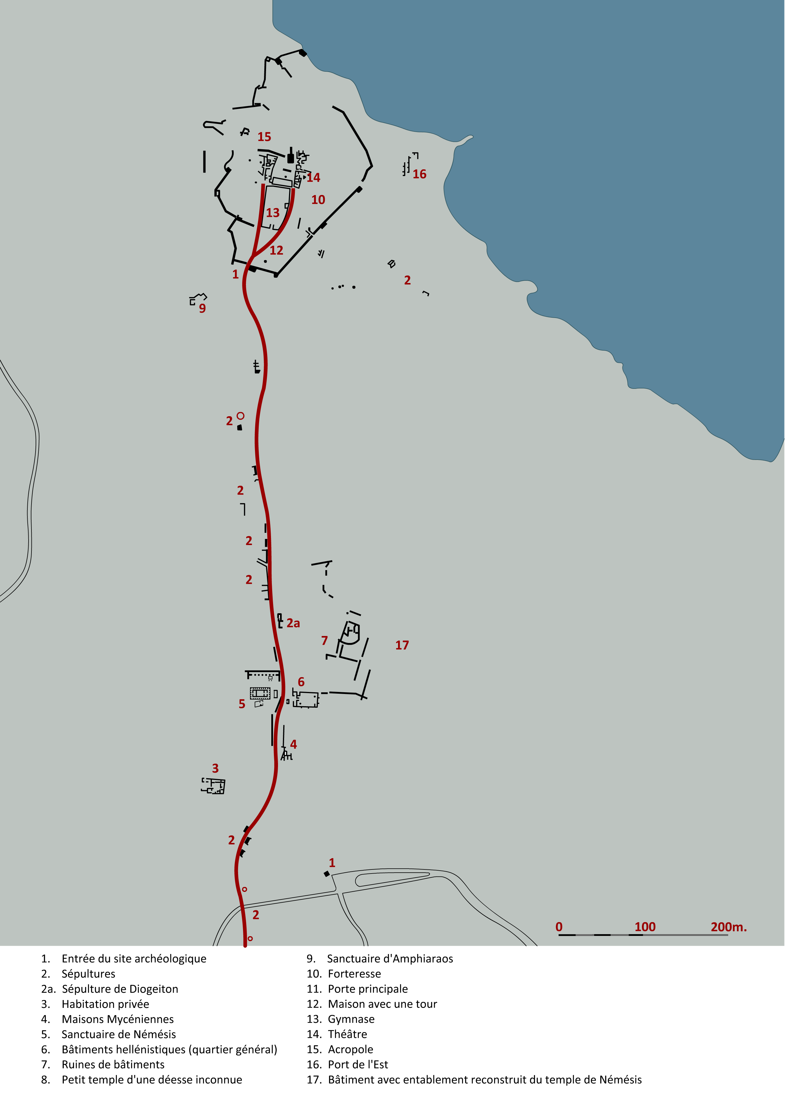 Map of the archeological site of Rhamnus (Greece) with legend in French